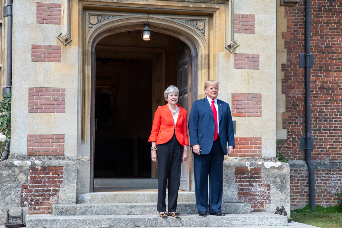 Prime Minister Theresa May welcomes President Donald J. Trump to her residence for a bilateral meeting. July 12, 2018 (Official White House Photo by Shealah Craighead)